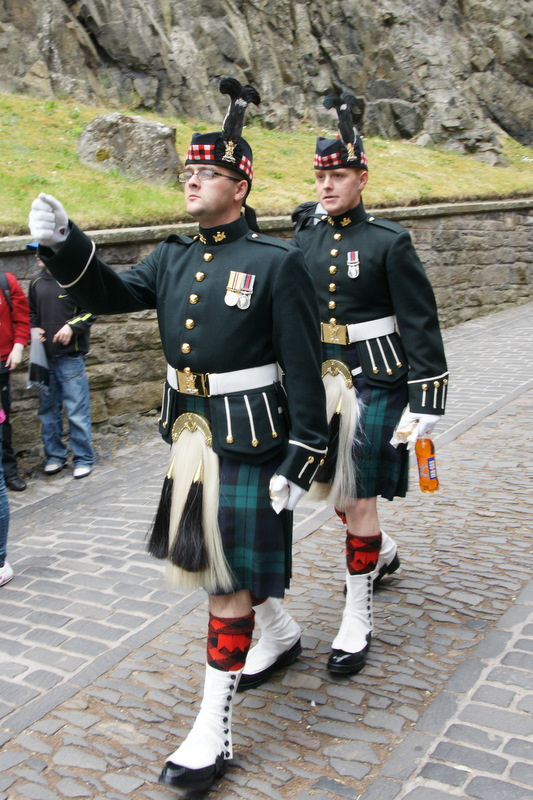 Two marching soldiers of the Royal Regiment of Scotland at Edinburgh Castle. They're heading south down the ramp in the Lower Ward; having come through the Portcullis Gate they're now marching past the gift shop (behind the camera), heading for the Gatehouse. Judging by the wrapped pieces in their left hands, plus the bottle of Irn Bru, they're heading off for their lunch break.